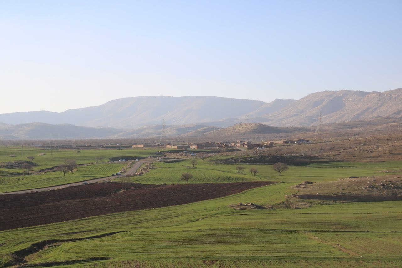 دالاب